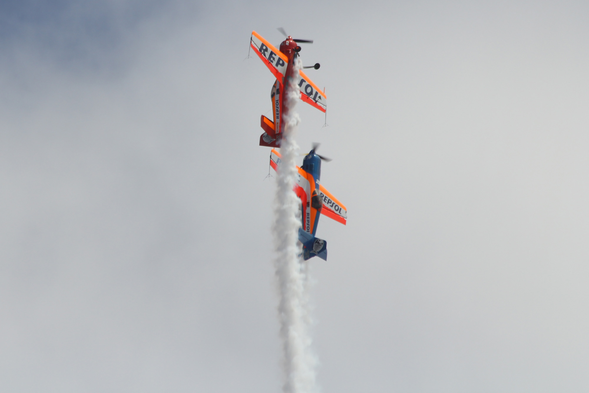 Festival Aéreo de La Coruña, España. 20 de julio de 2014. Sukhoi Su-26 of the Spanish aerobatic team Bravo 3 Repsol Corunna AirShow, Spain. July 20, 2014.